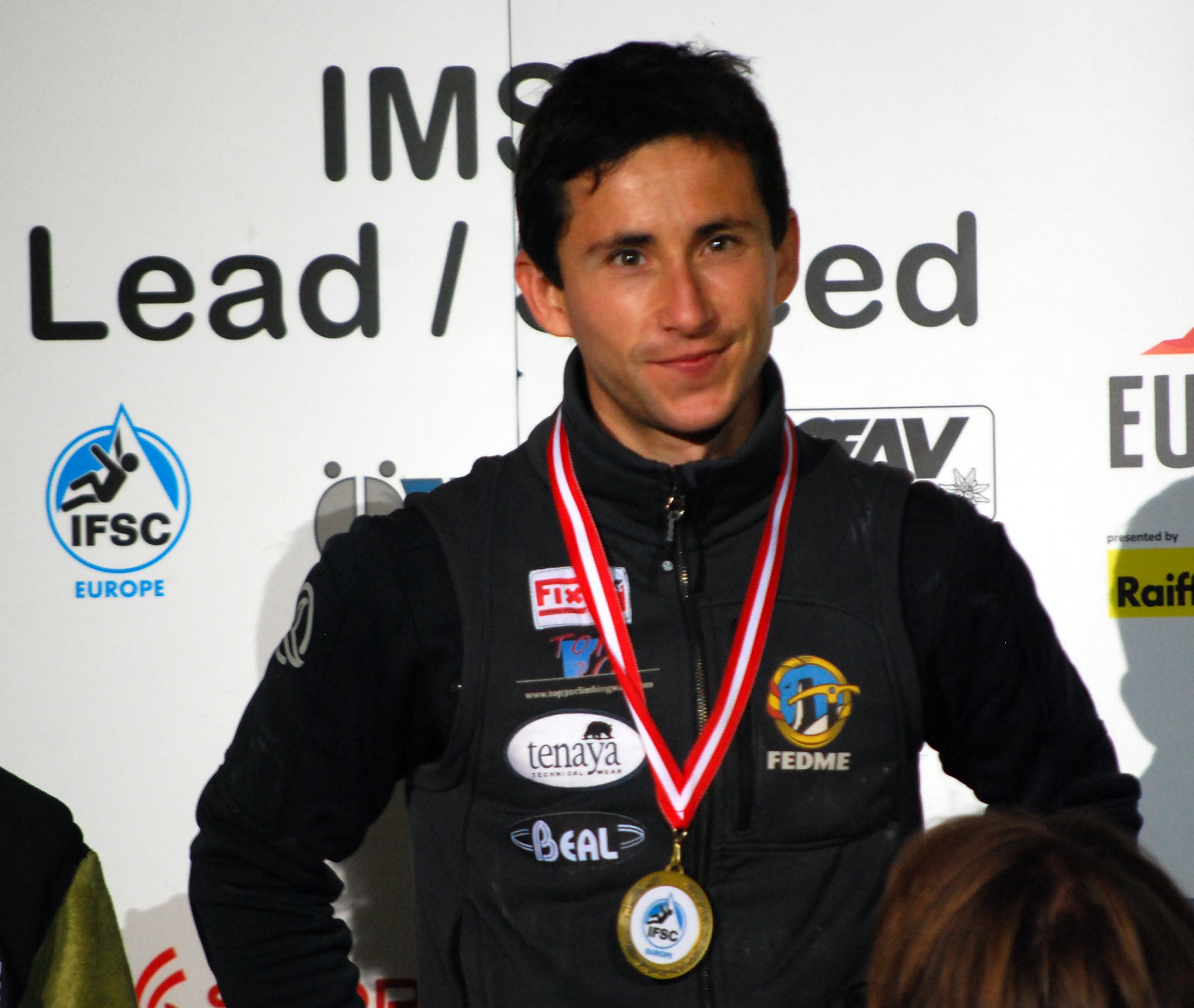 Ramón Julián Puigblanque after winning the lead EC 2010 Imst